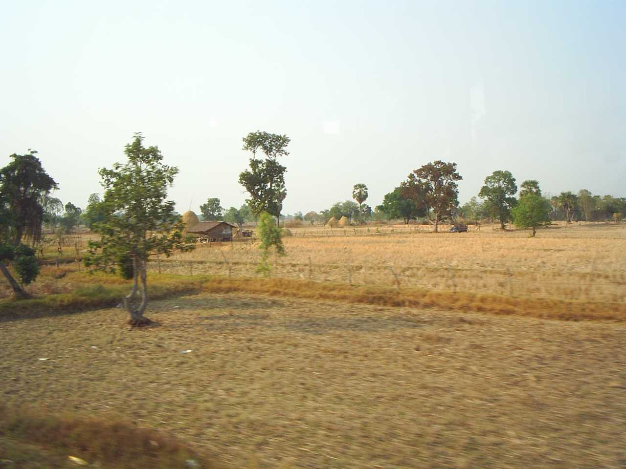 Fields in Nakhon Ratchasima province, Isan; photo taken by User: Markalexander100 28/2/05.